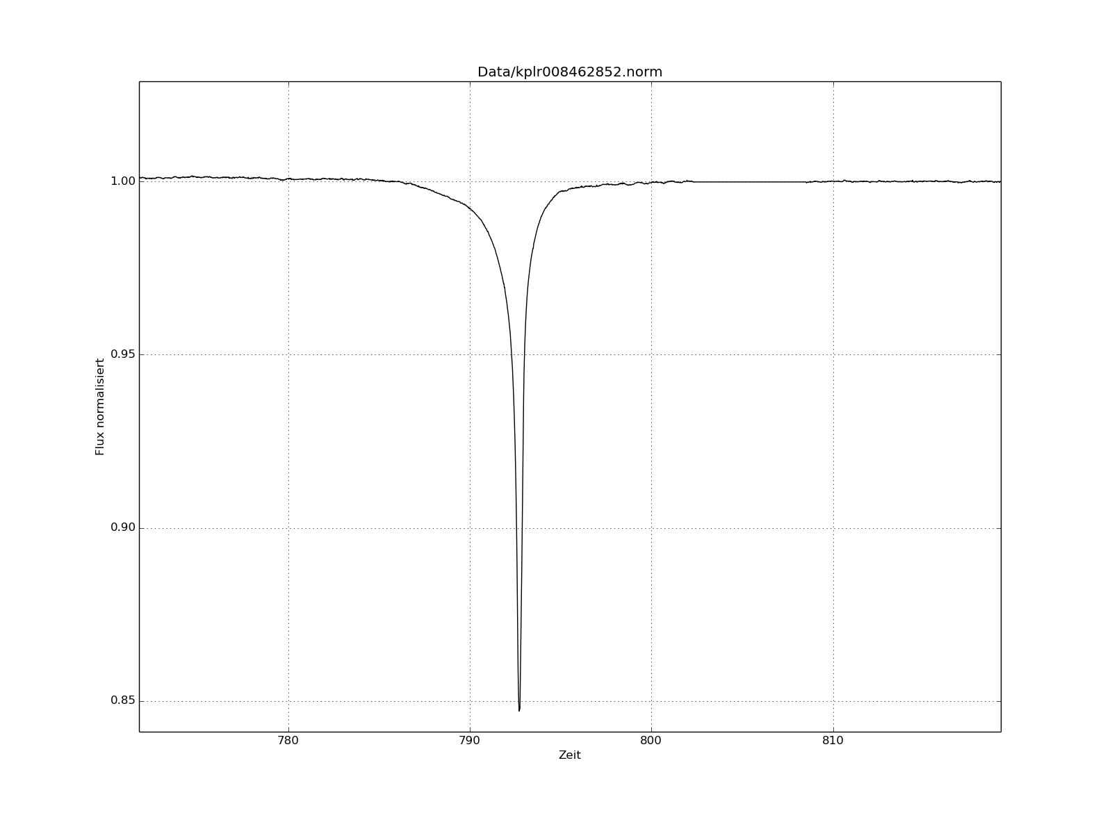 Strong reduction of light from KIC 8462852 in 05 March 2011 (Day 792 of Kepler observations).